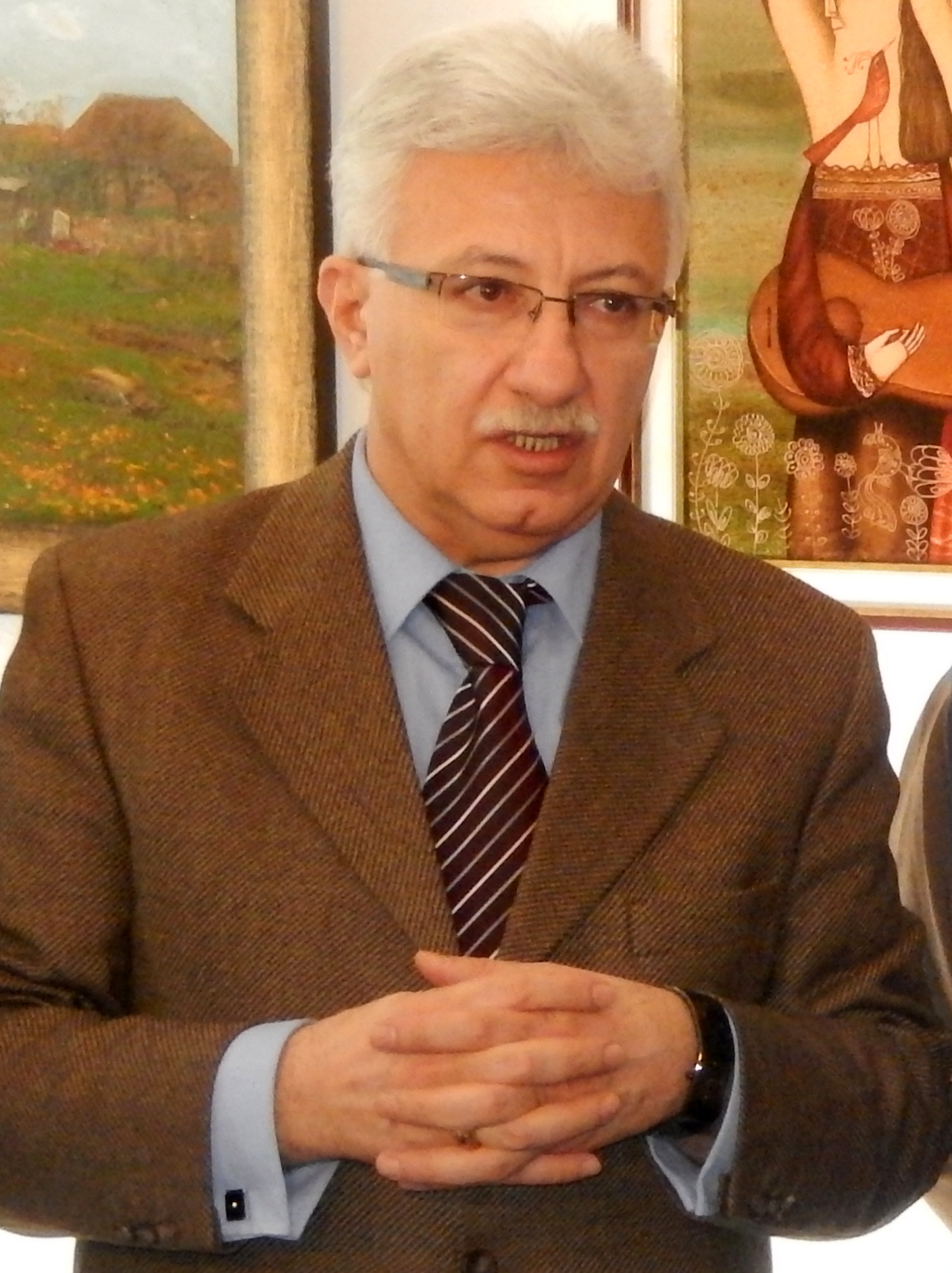 Hovik Hoveyan